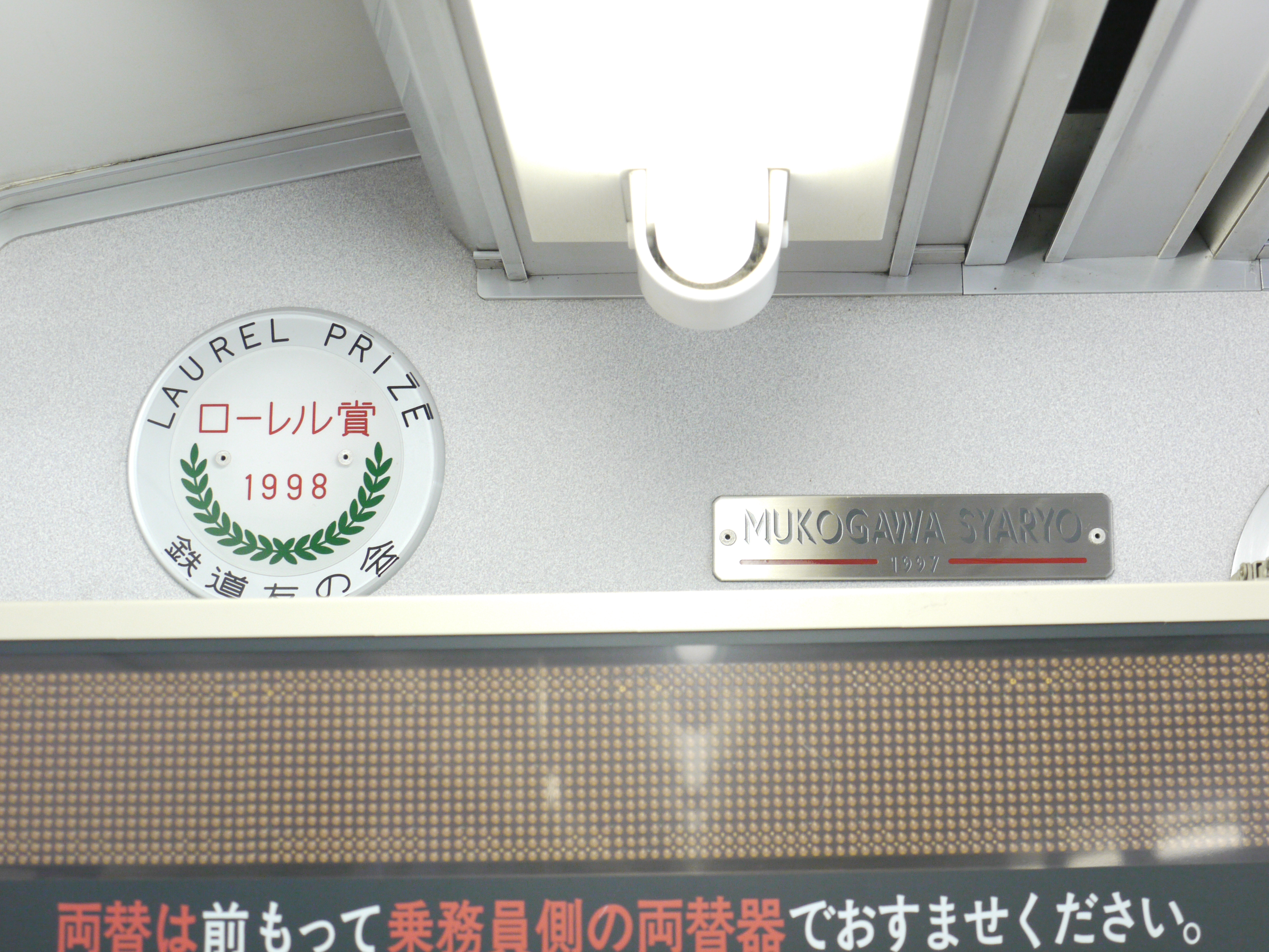 Laurel prize and manufacture plates on Eizan Electric Railway 900 series